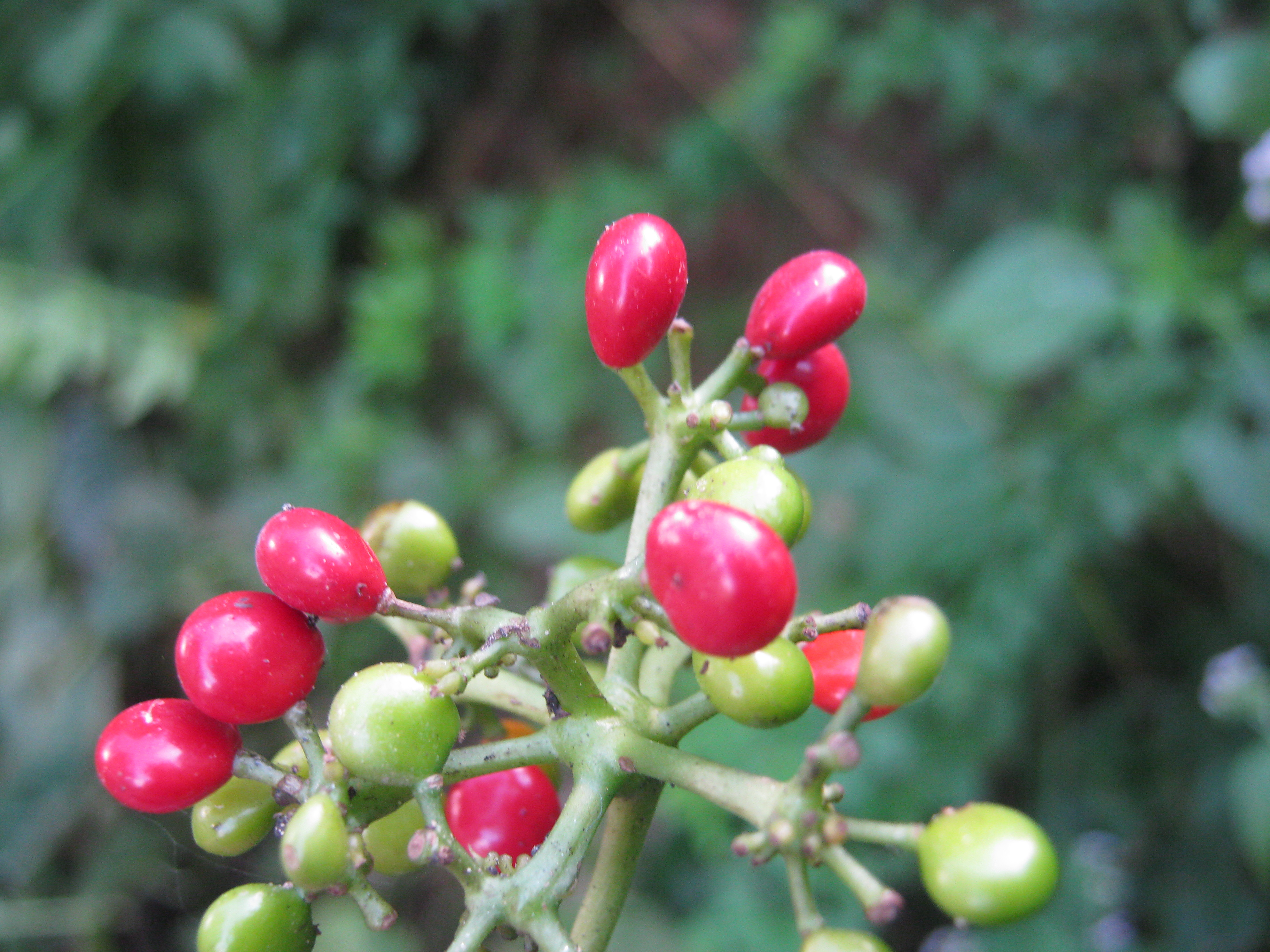 Cissampelos pareira fruits and bulb found in Panchkhal-7, Kavrepalanchok district in Nepal.